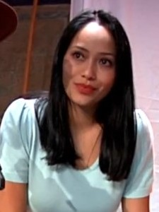 Maya Zapata in 2014